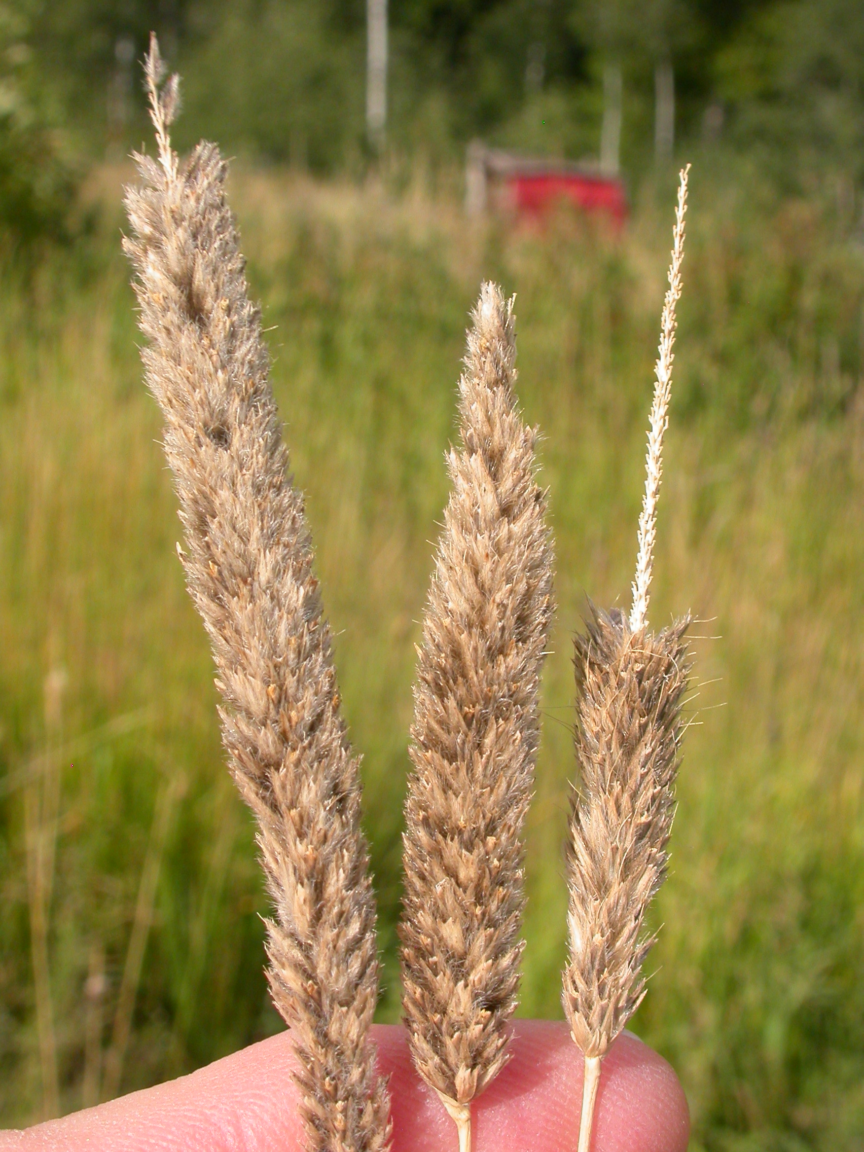 The spikelets disarticulate from top to bottom in a fairly systematic fashion. The lemma awns conspicuously protrude from the spikelet in Alopecurus pratensis (right hand inflorescence), in contrast to those of Alopecurus arundinaceus (middle and left hand inflorescences).